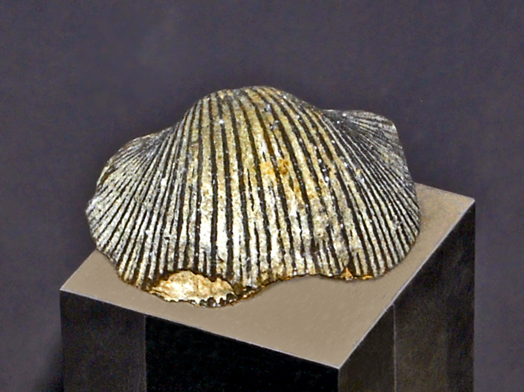 Fossils of Plaesiomys subquadrata, on display at Museo Paleontologico Lai, Ceriale, Savona, Italy